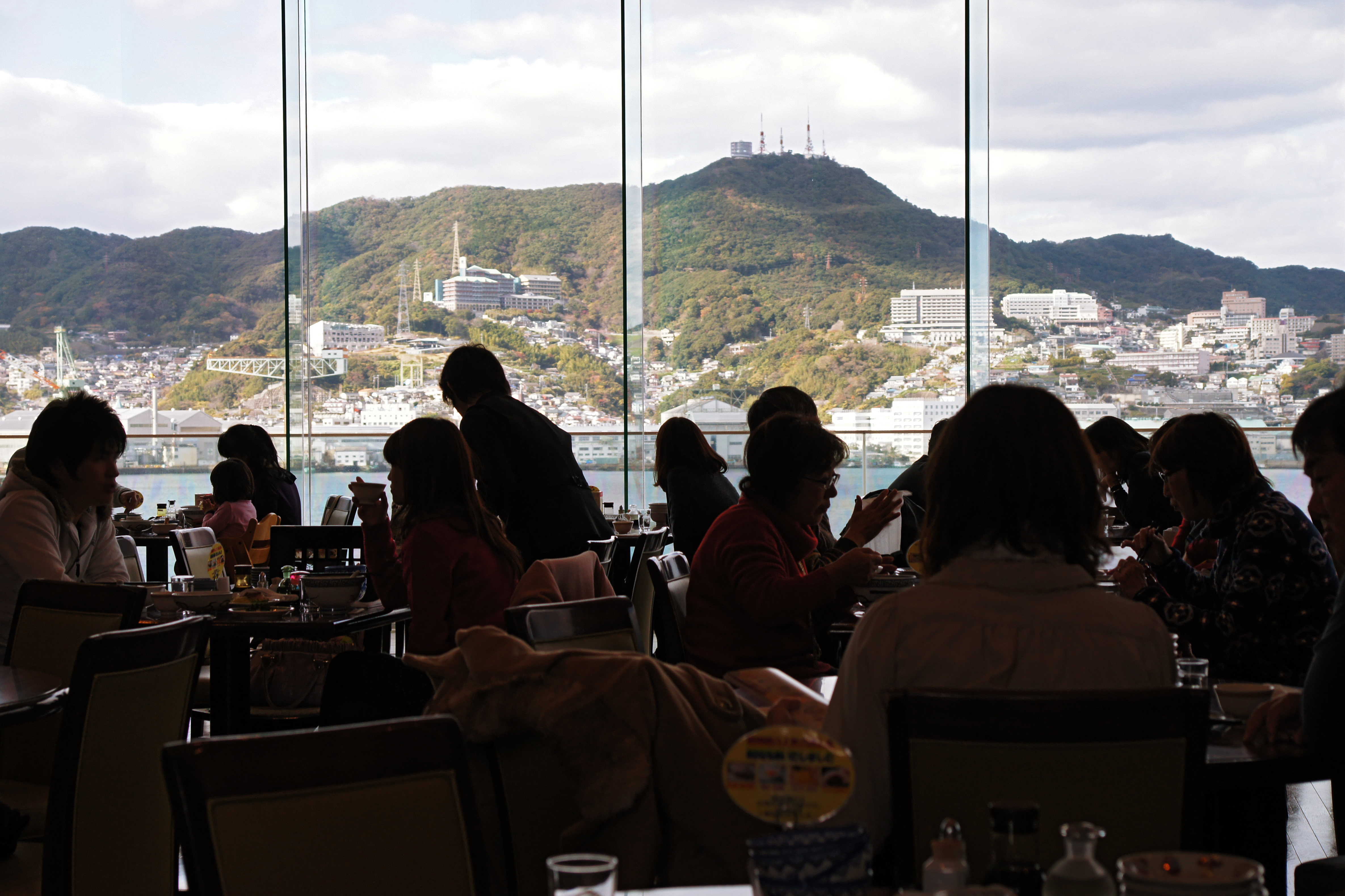 Chinese restaurant "Shikairo" in Nagasaki, Nagasaki prefecture, Japan